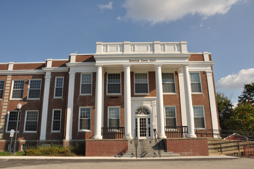 The town hall of Ipswich, Massachusetts.